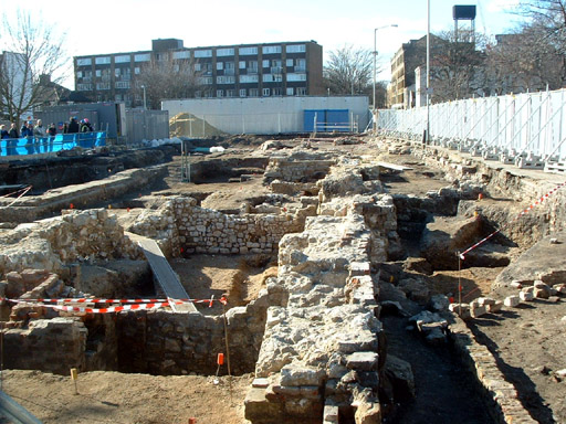 Bermondsey Abbey archaeological dig - viewed from Tower Bridge Road, 05 March 2006